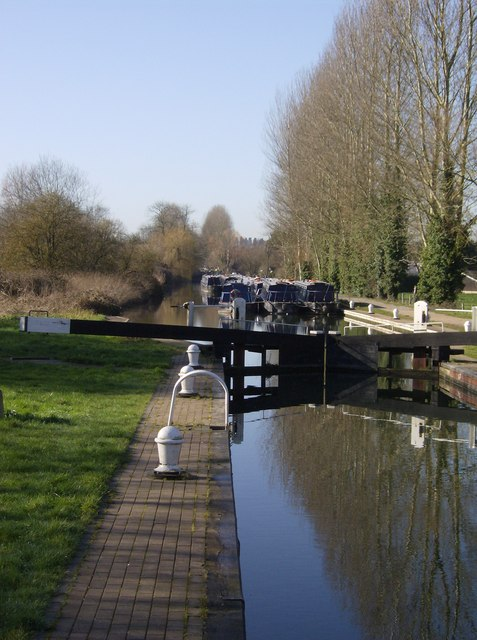 Padworth Lock One of the many "start from scratch" rebuilt locks on the canal. Beyond are the many boats of Reading Marine, the biggest hire boat company in the area.